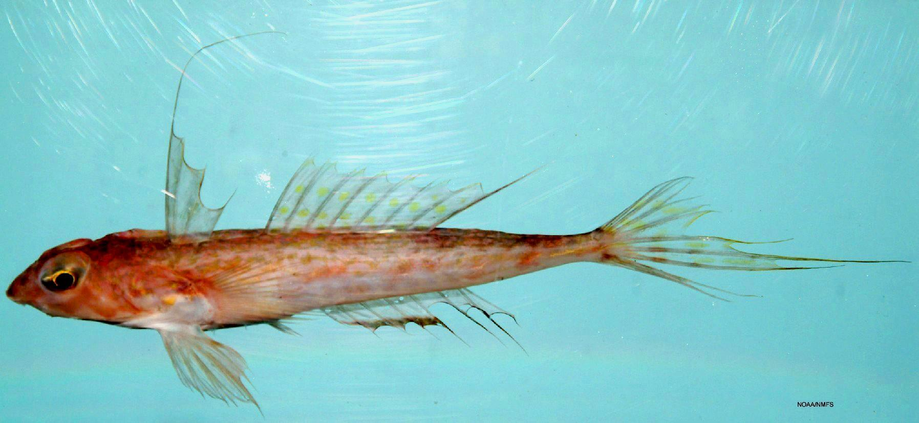 Foetorepus agassizii from the Gulf of Mexico